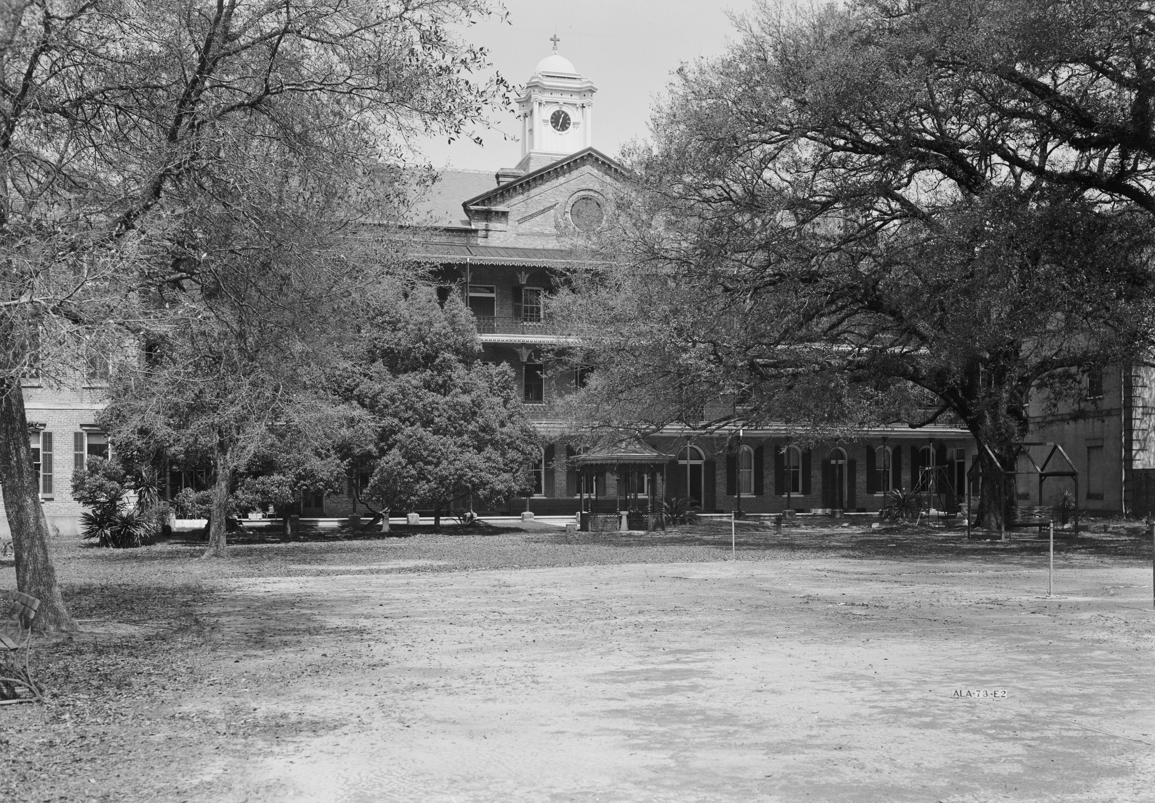 Convent of the Visitation, Section B, Spring Hill Avenue, Mobile, Mobile County, AL. SOUTH (FRONT) ELEVATION, SECTION 'B'.